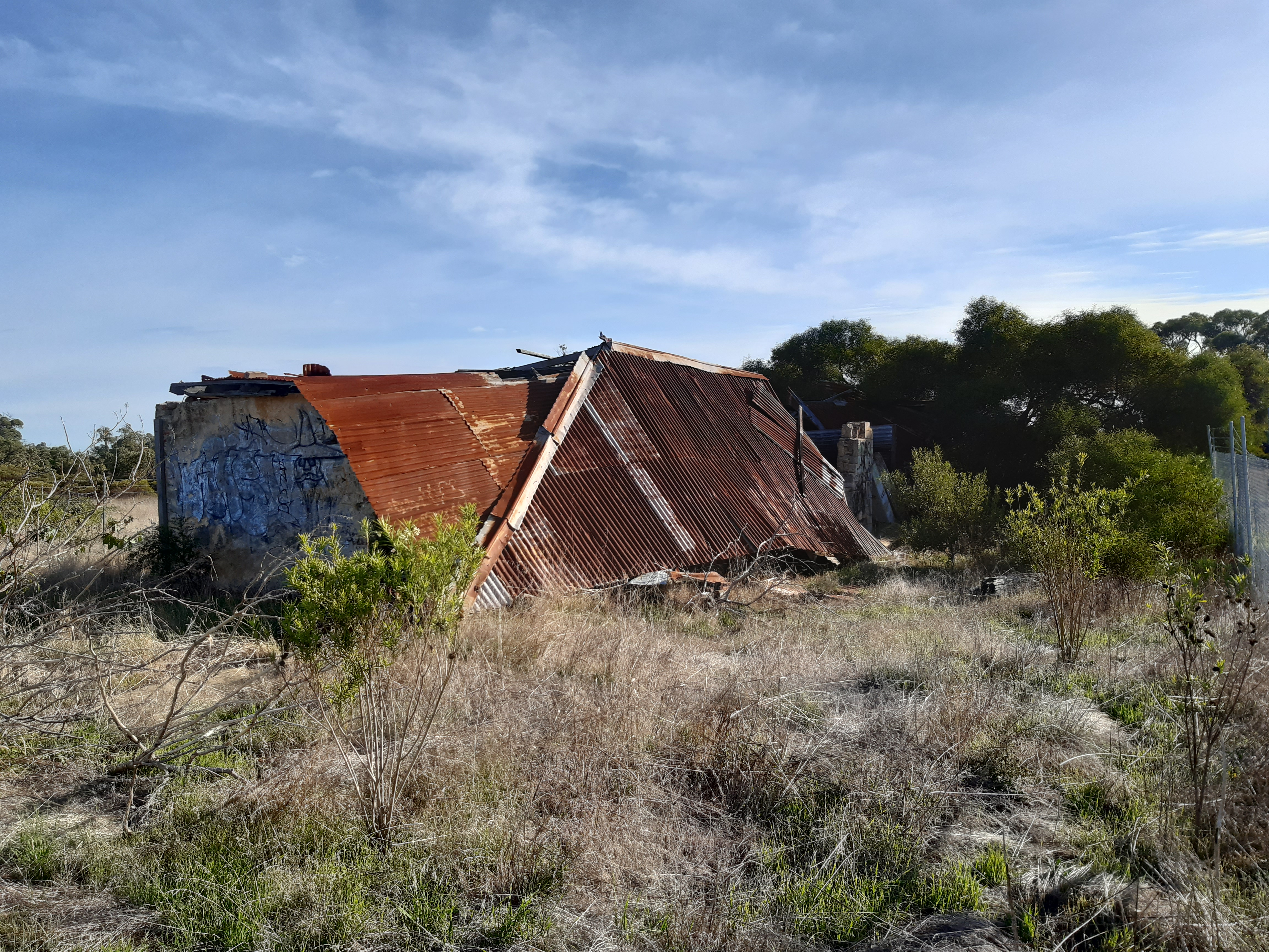 The ruins of the heritage listed Chesterfield Inn Stables (Inherit# 2326), East Rockingham, Western Australia.